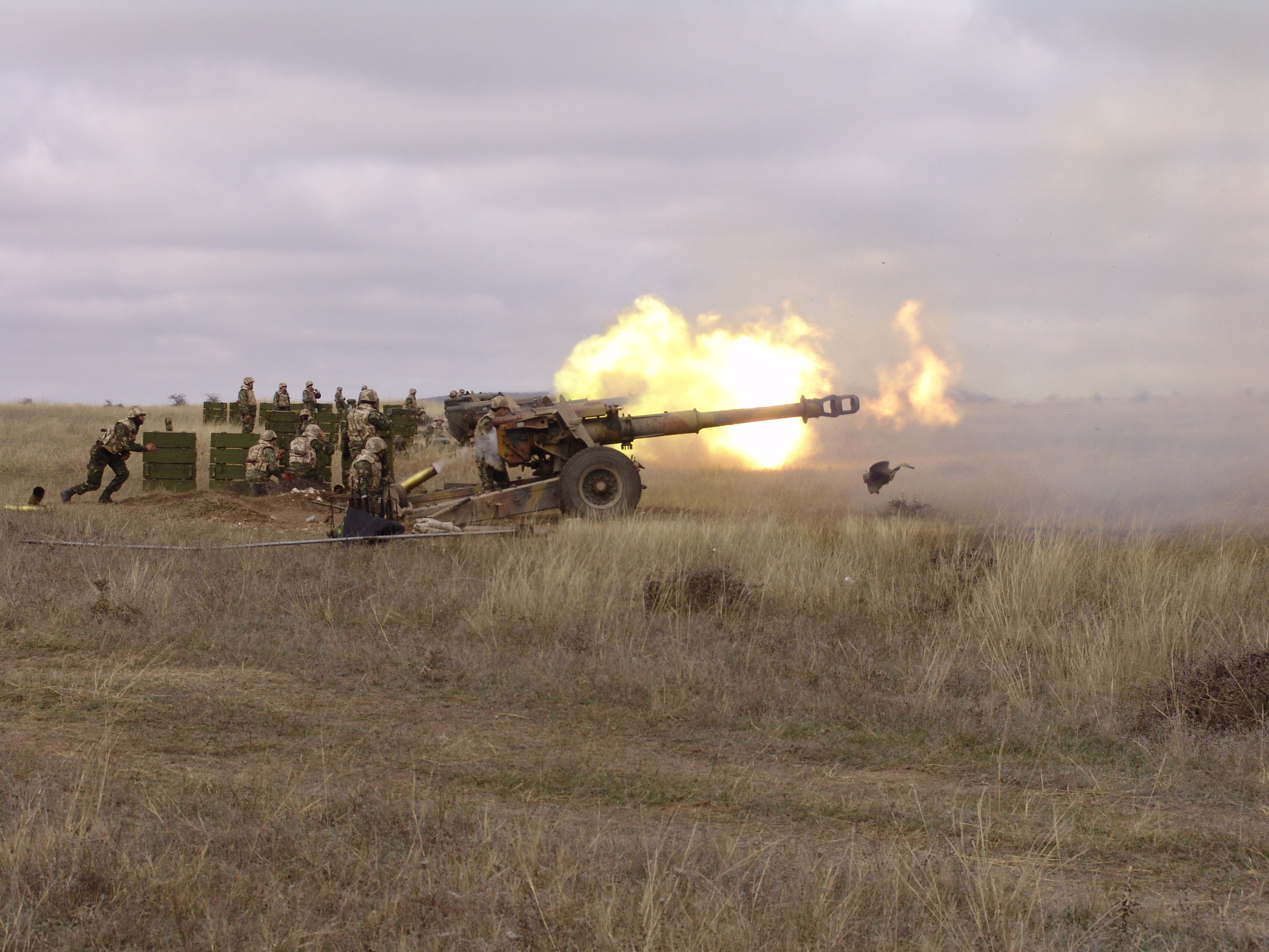 152 mm howitzer M81 (licensed built D-20 howitzer) firing during a military exercise.